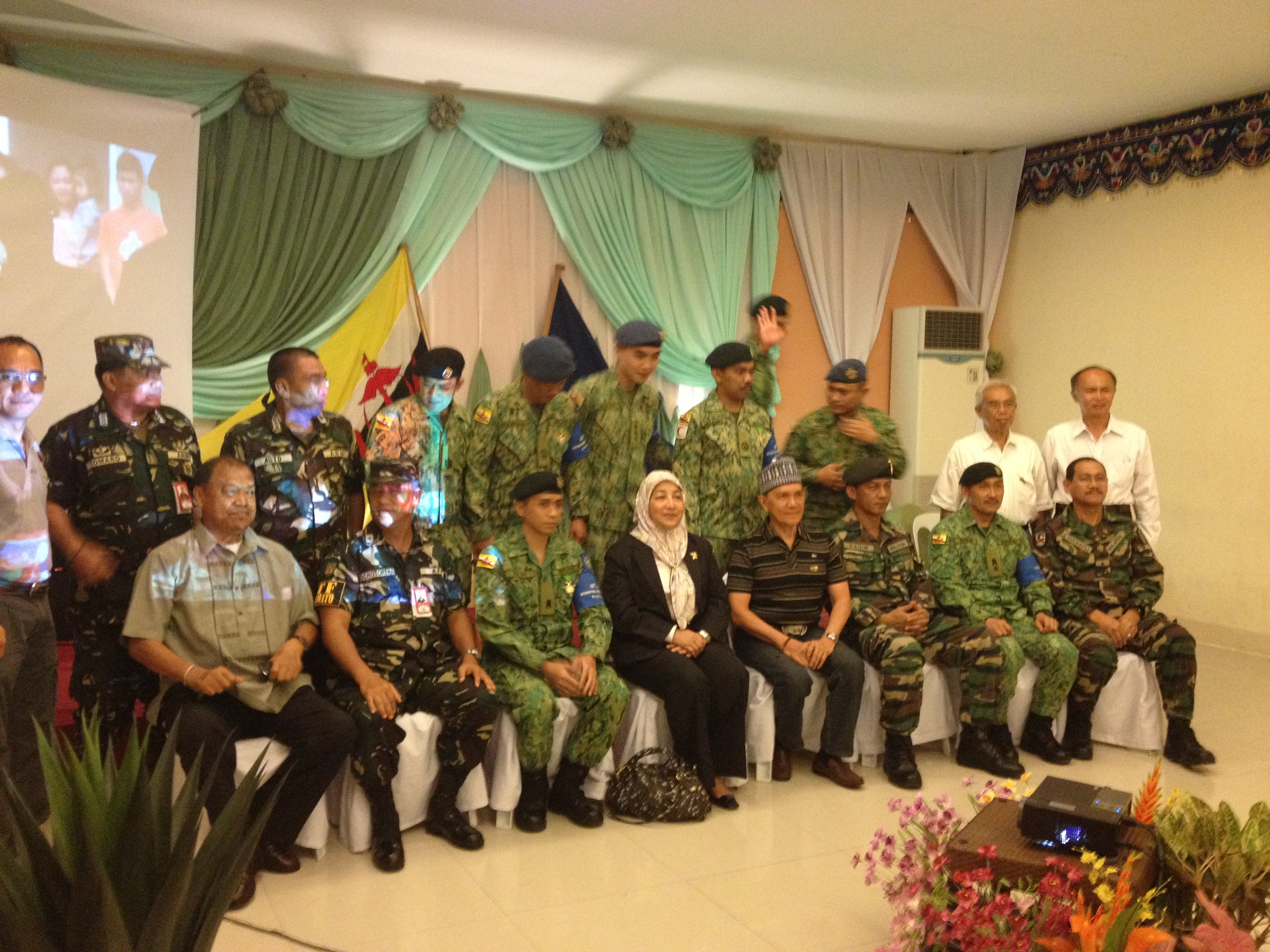 Mastura with Brunei Ambassador